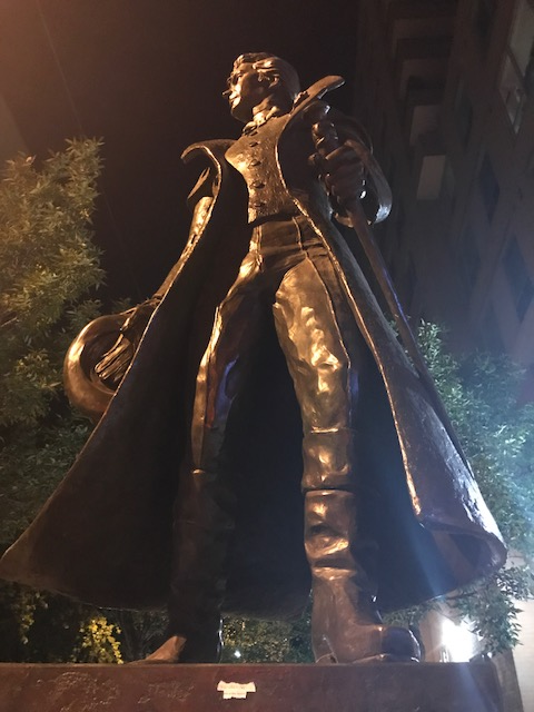 Alexander Wood statue at the corner of Church and Alexander streets in Toronto.